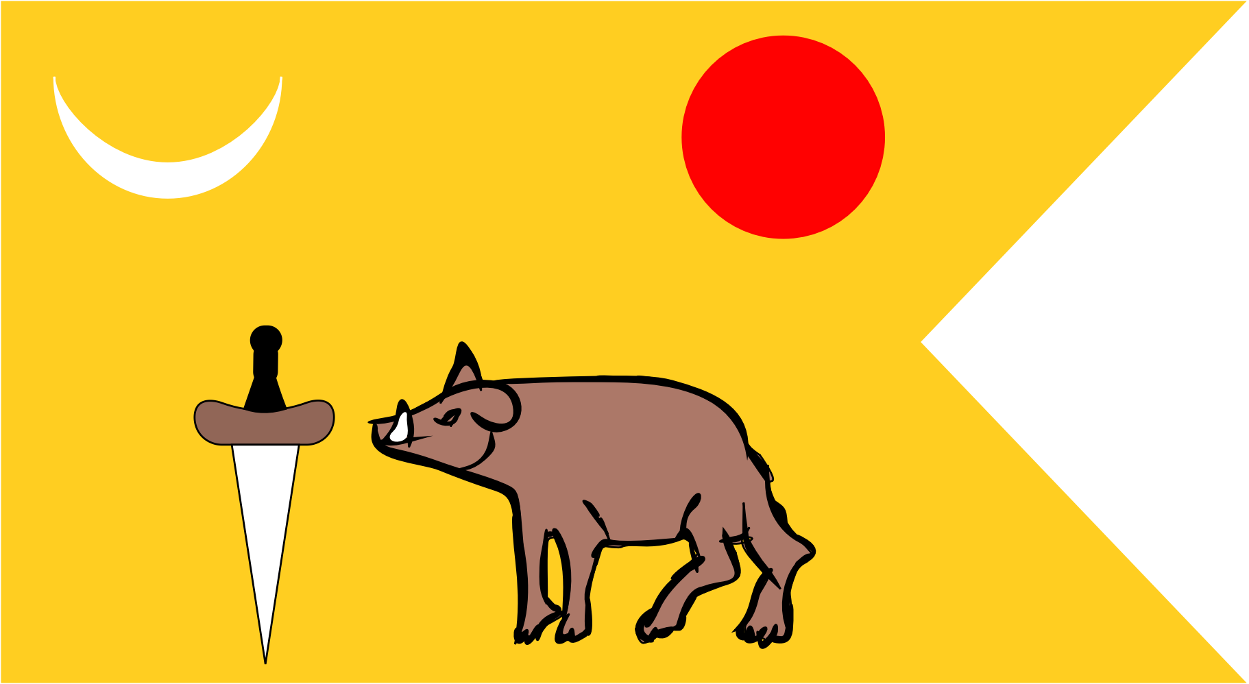 Flag of the Vijayanagara Empire. Unreferenced.